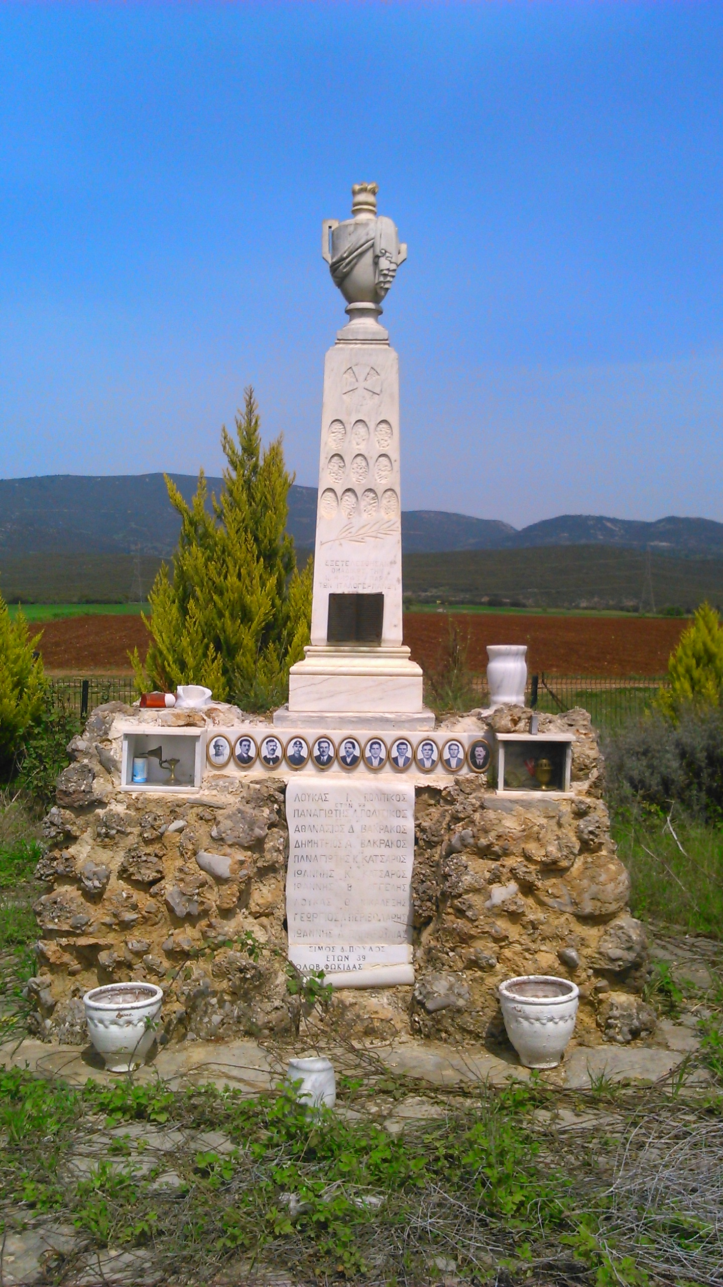 Memorial to those who were killed by the Germans after the explosion at the railroad station of Amfikleia by Greek revolutionaries on April 13th 1943.